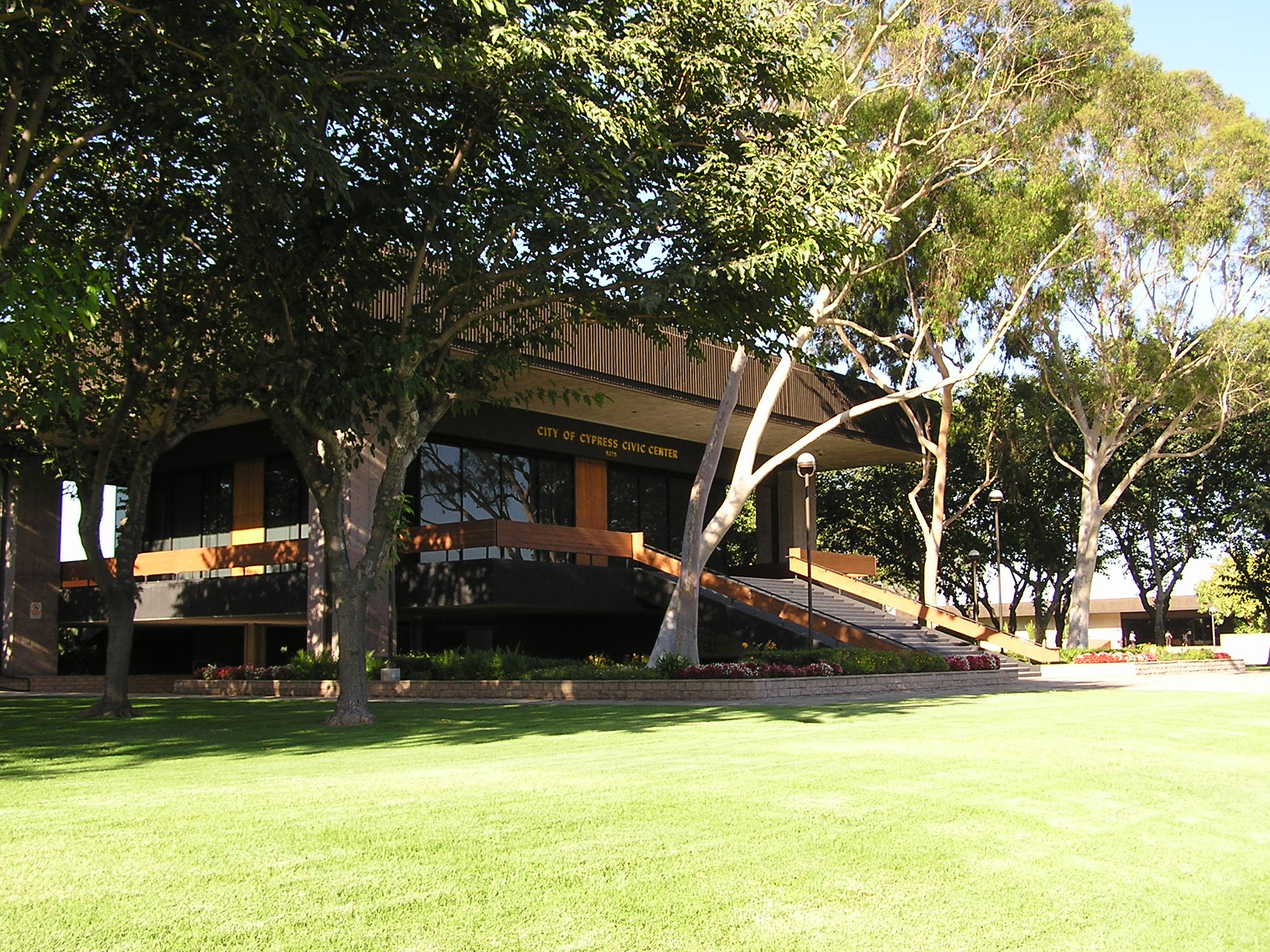 Cypress, California City Council Chamber, originally designed by William L. Pereira and Associates, located next to City Hall.